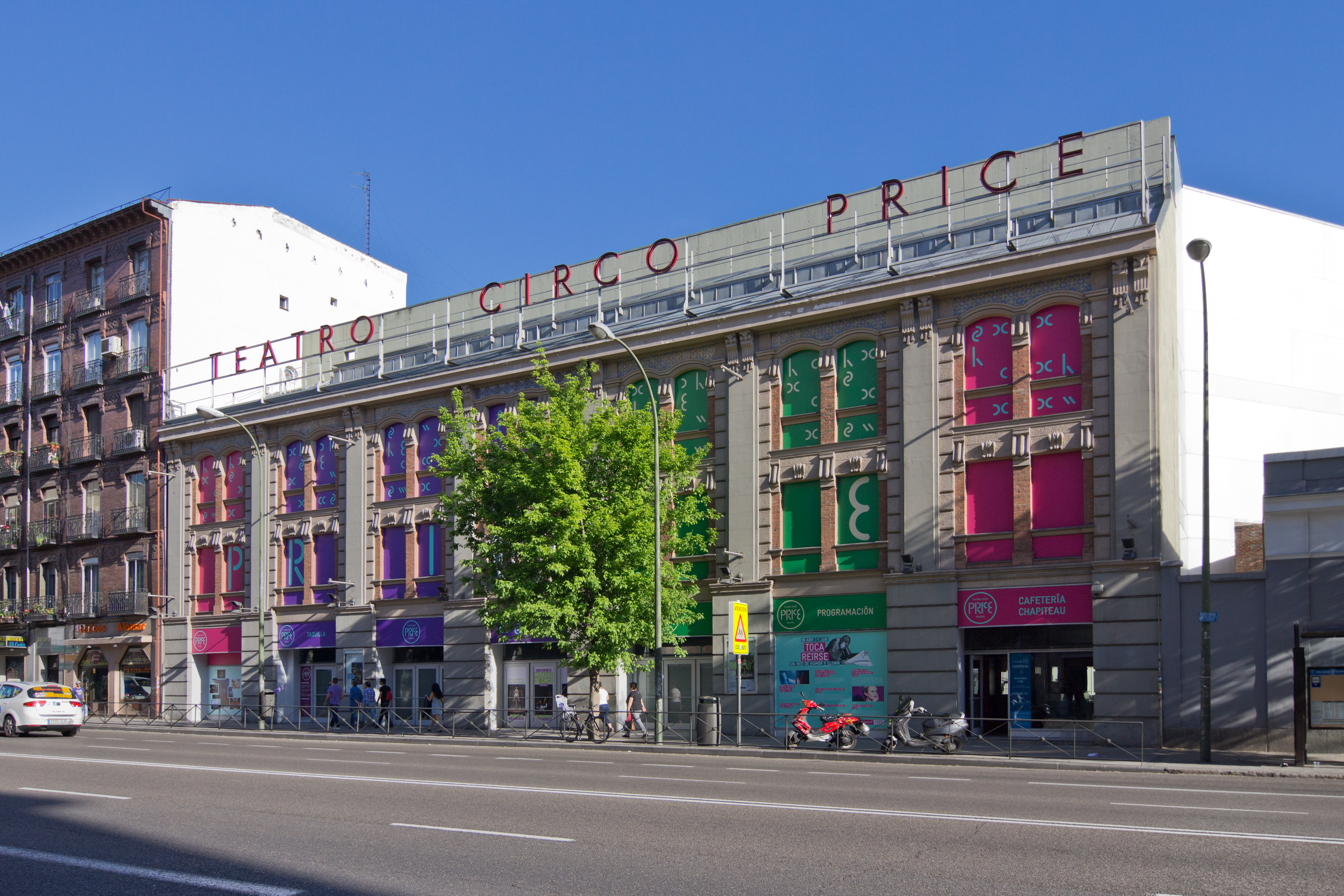 Teatro Circo Price (Price Theater Circus), Madrid, Spain.